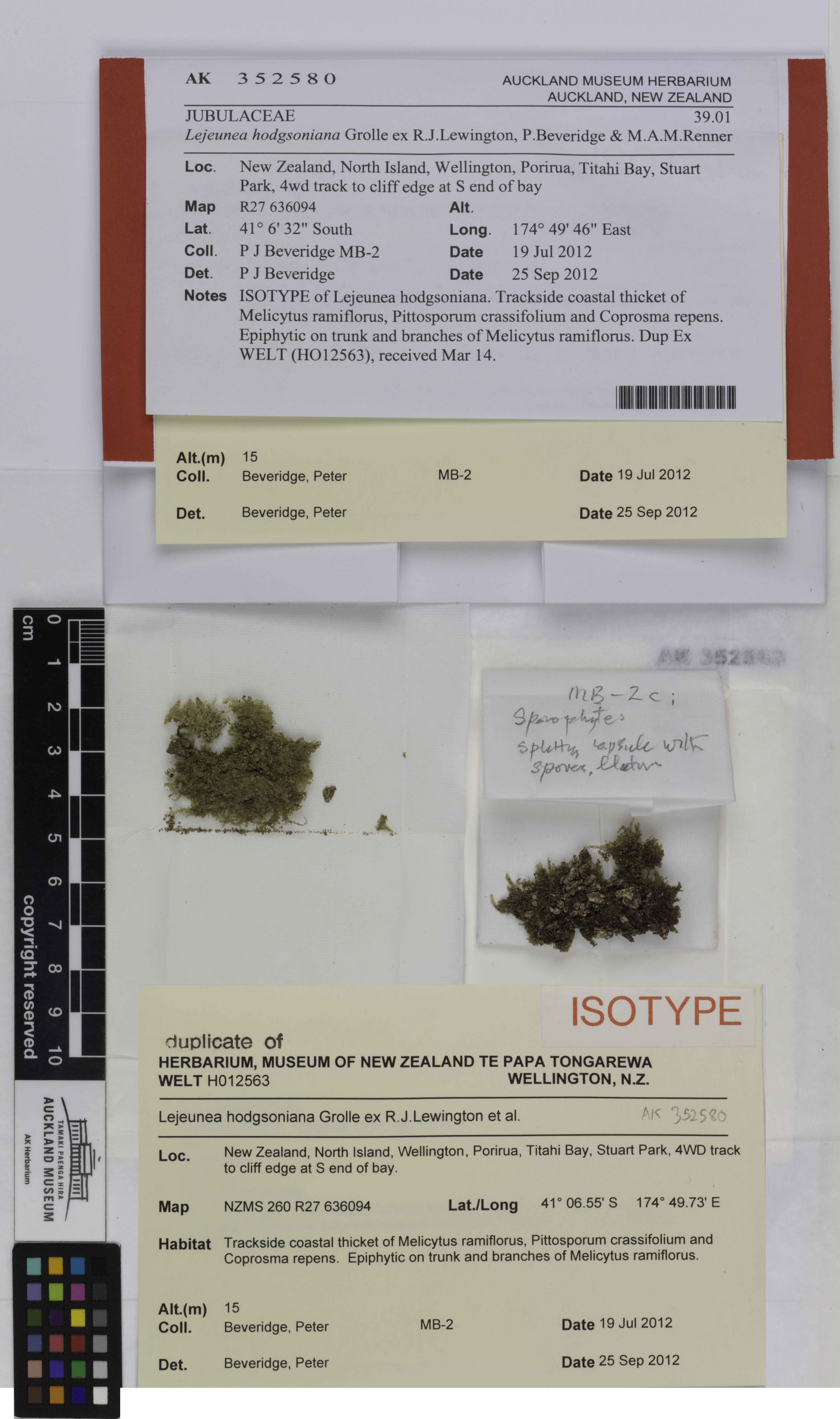 An isotype specimen of Lejeunea hodgsoniana held by the Auckland War Memorial Museum. AK352580, Photographed by: D Ranatunga.